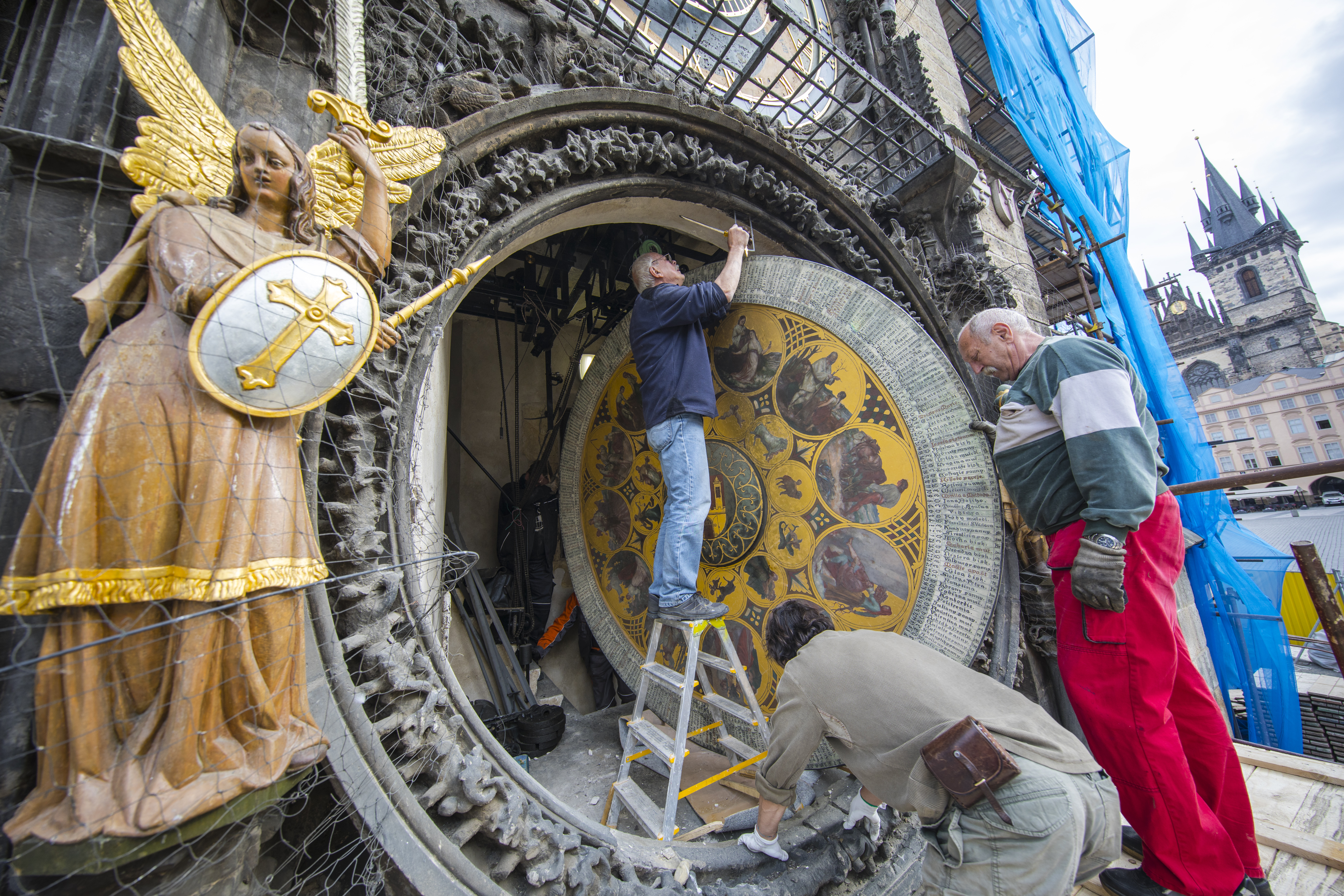 Renovation of the Old Town Hall building in 2017-2018, Prague, CZ